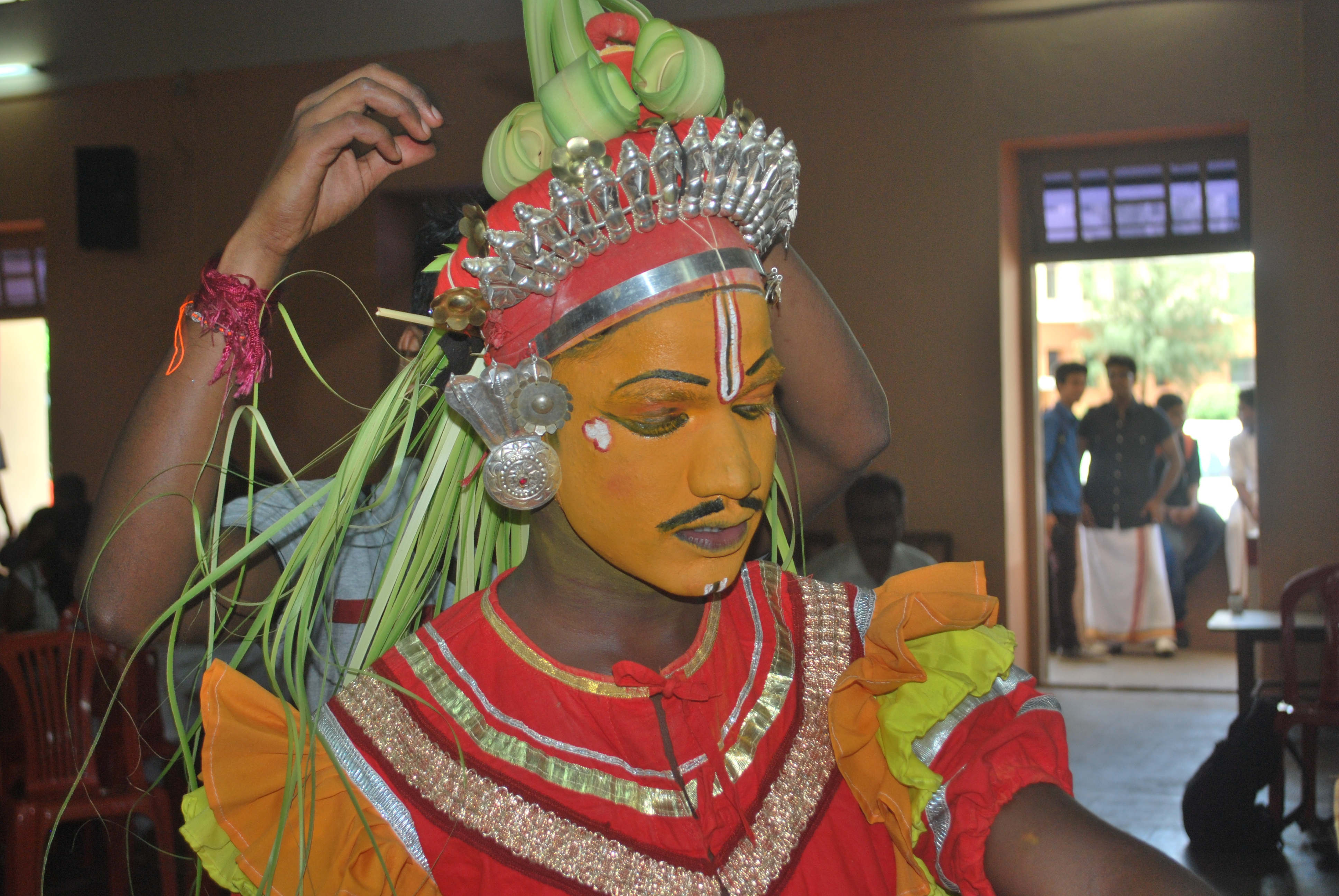 This photo has been taken in the country: India